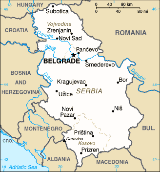 CIA World Factbook map from 2017. It shows Kosovo as an autonomous province of Serbia. Kosovo declared itself independence on February 17, 2008. This is recognized by the United States and some other nations. The most recent CIA World Factbook map, Image:Serbia-CIA WFB Map.png, shows Kosovo as an independent state. This image remain because of the ongoing dispute, and for historical purposes.